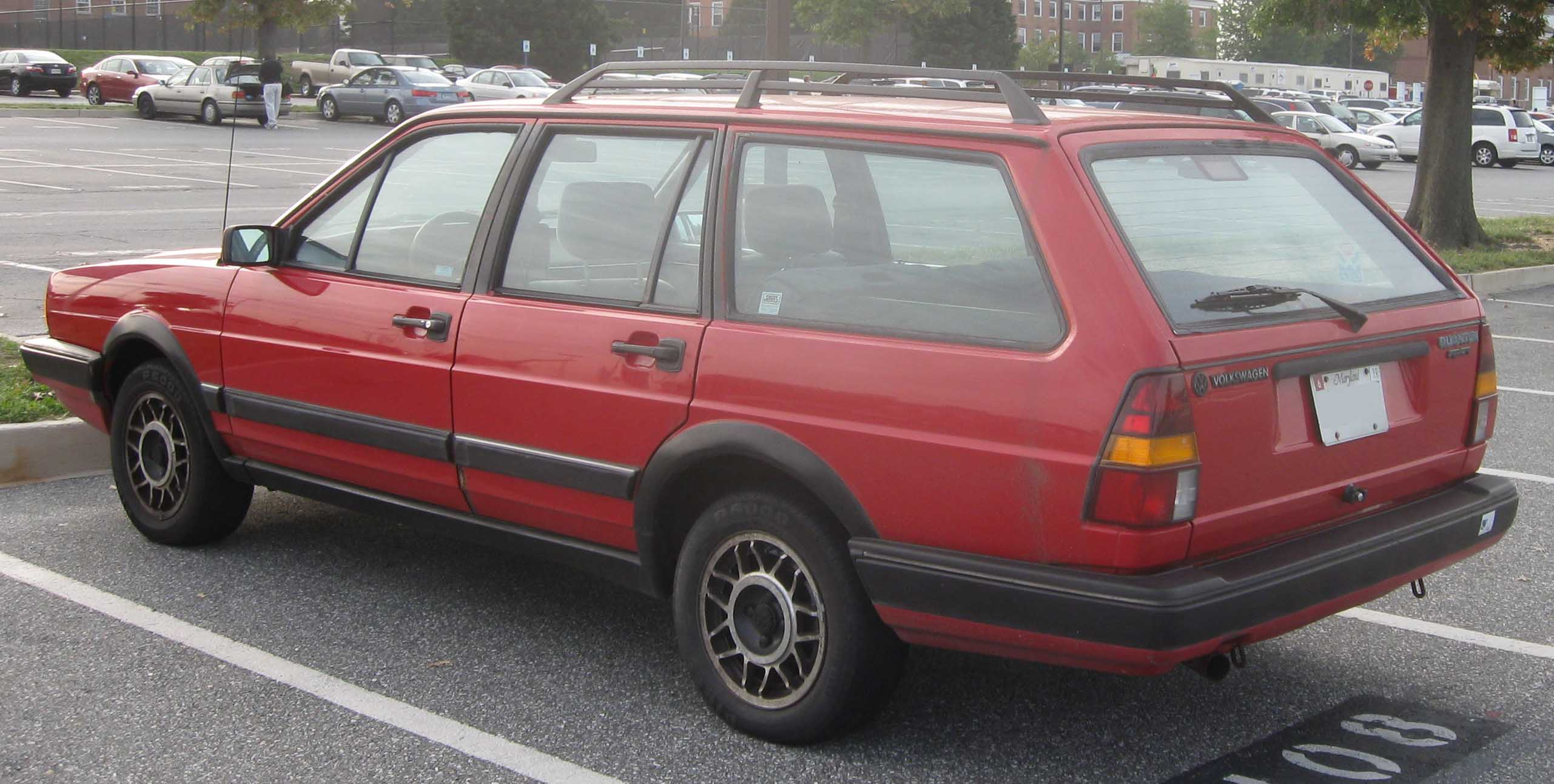 1986-1988 Volkswagen Quantum Syncro photographed in College Park, Maryland, USA.